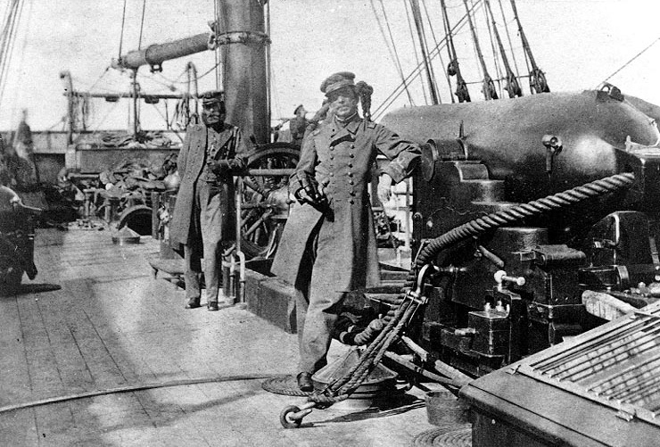 Captain Raphael Semmes, Alabama's commanding officer, standing by his ship's 110-pounder rifled gun during her visit to Capetown in August 1863. His executive officer, First Lieutenant John M. Kell, is in the background, standing by the ship's wheel. The original photograph is lightly color-tinted and mounted on a carte de visite bearing, on its reverse, the mark of E. Burmester, of Cape Town.